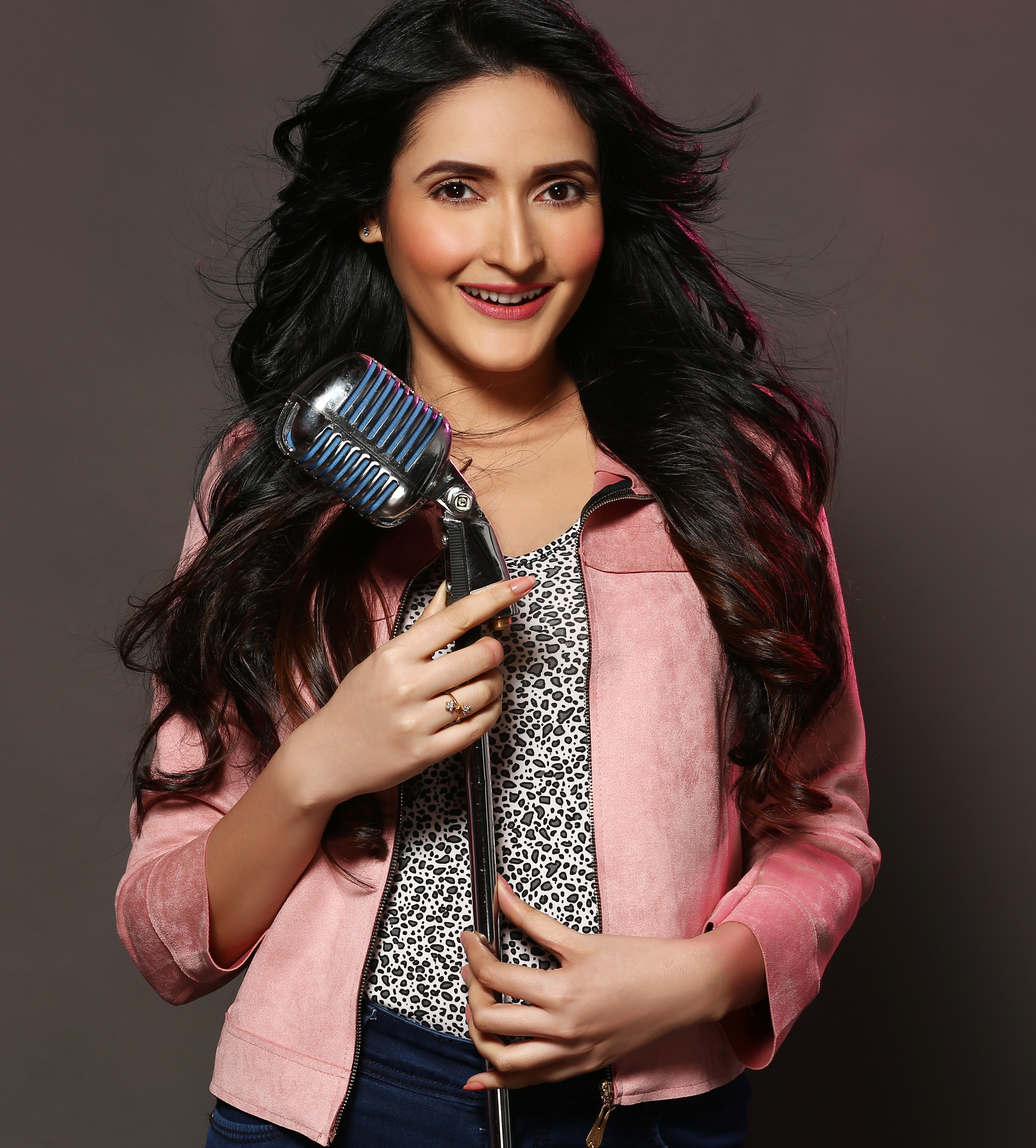 Arpita Mukherjee - Indian Playback Singer